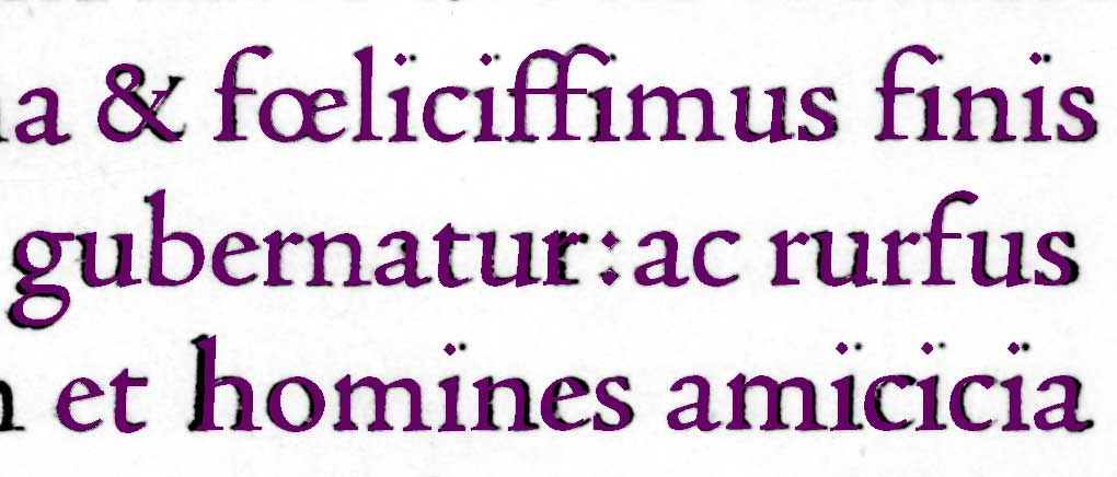 Printing of Jenson plus a modern version